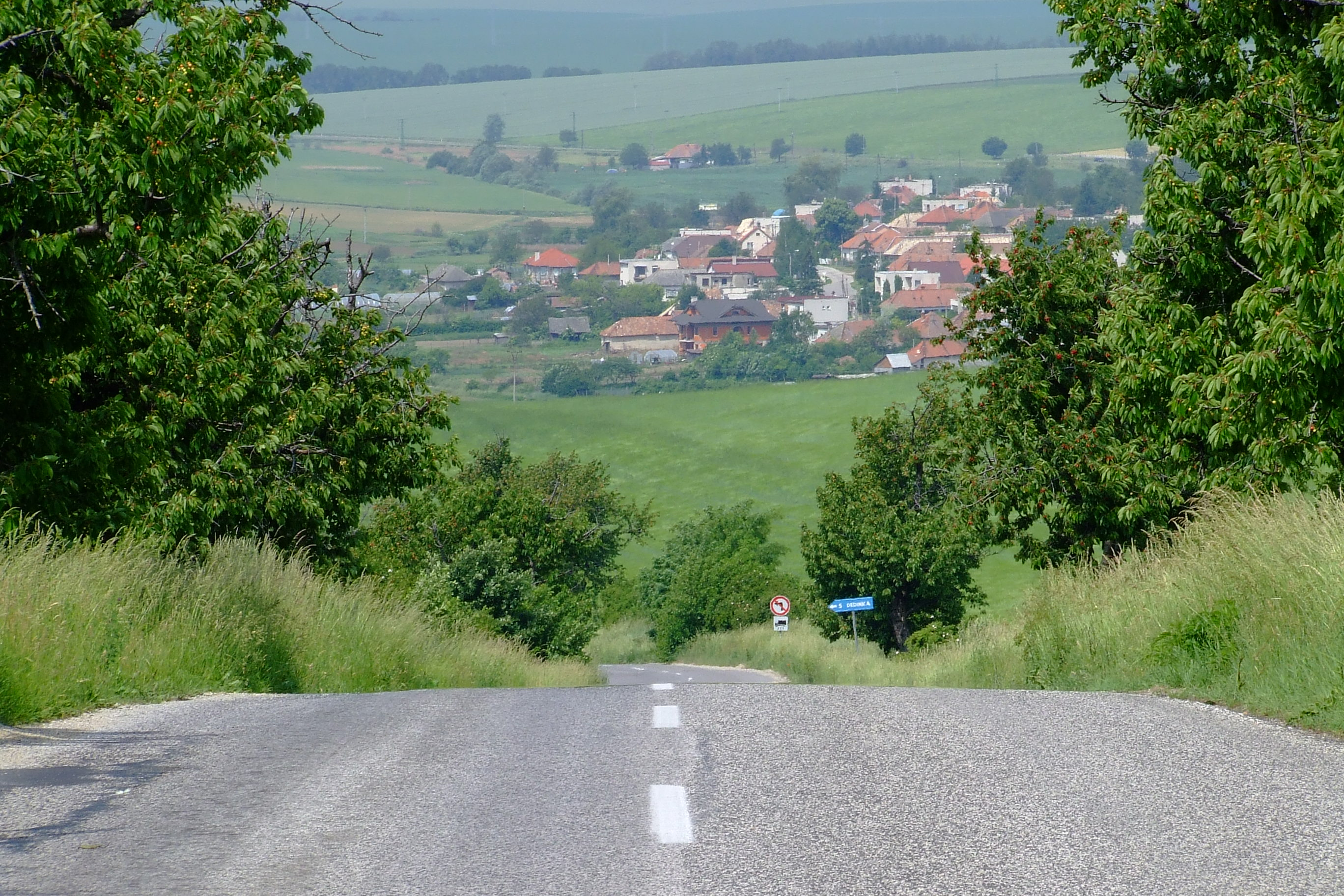 Pozba